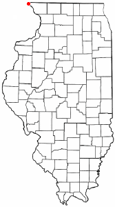 Category:Illinois city locator maps